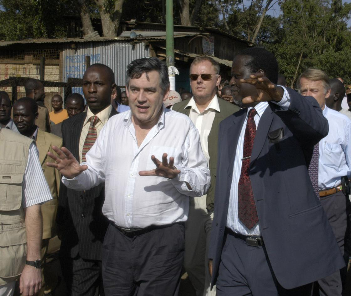 British Chancellor of the Exchequer Gordon Brown is being taken round Kibera Slums with Member of parliament Raila Odinga during his visit in Nairobi 4 years ago.